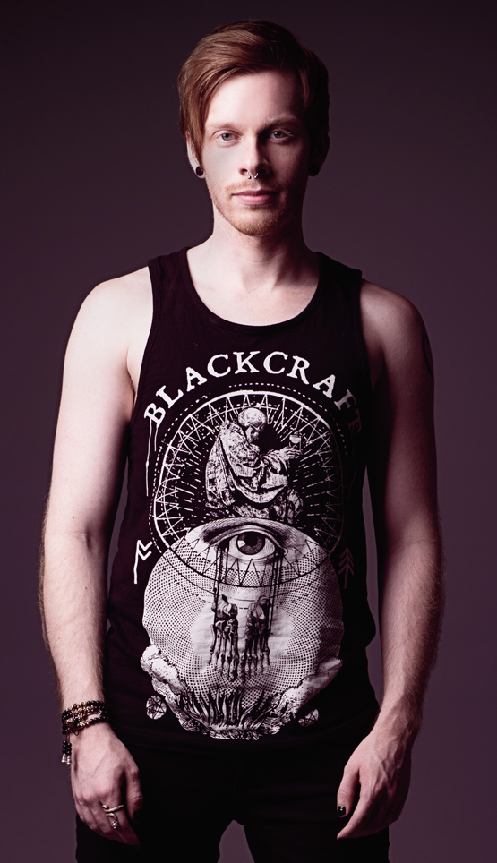 Nick Pittsinger in 2014